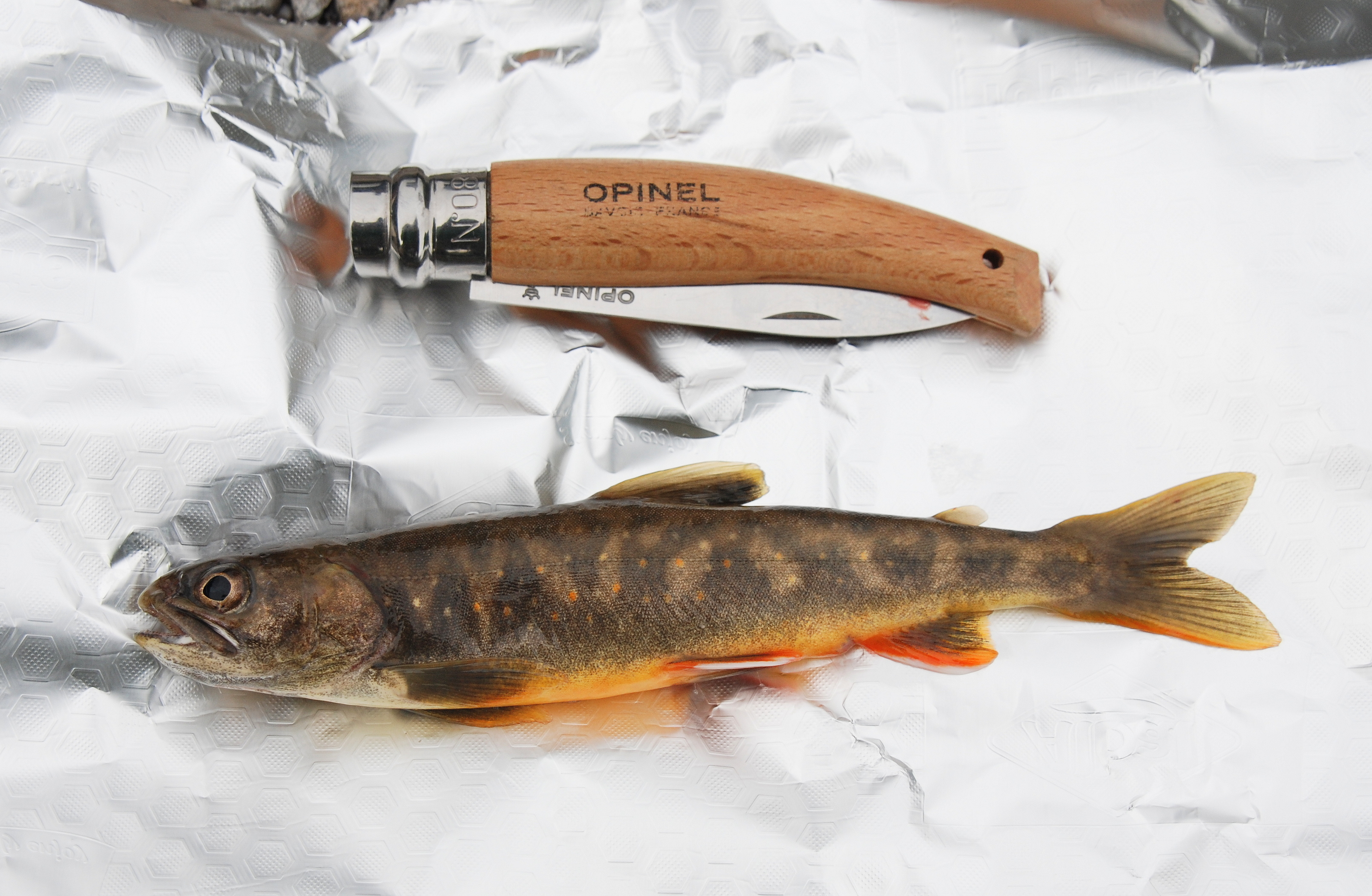 Degenerated form of Salvelinus alpinus